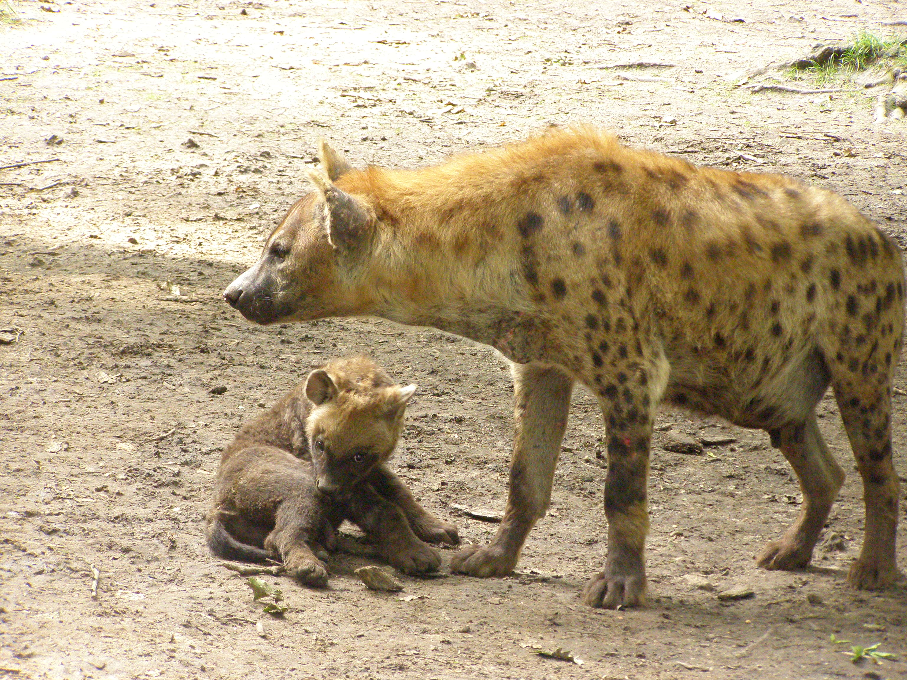 Spotted hyena (Crocuta crocuta) and his baby